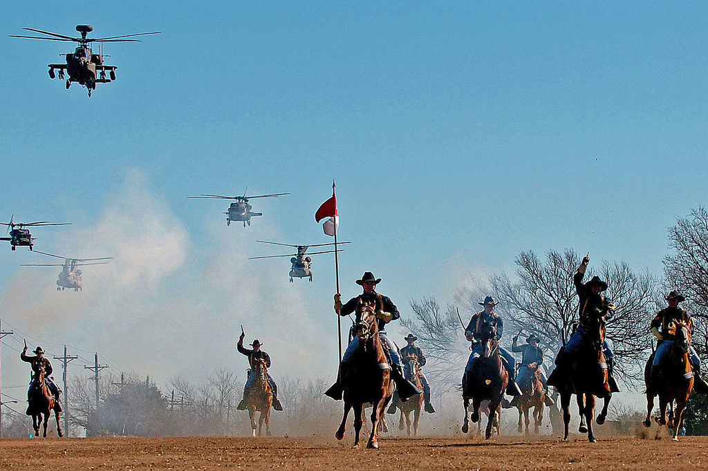 Following the casing of the brigade, battalion and division colors, soldiers assigned to the 1st Cavalry Division Horse Detachment perform a cavalry charge accompanied by a helicopter flyover performed by the 1st Cavalry Division Air Cavalry Brigade on Fort Hood's Cooper Field, Texas, Dec. 12, 2008. U.S. Army photo by Pfc. Phillip Turner